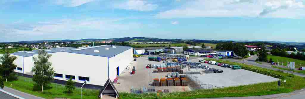 company grounds IVB Umwelttechnik GmbH